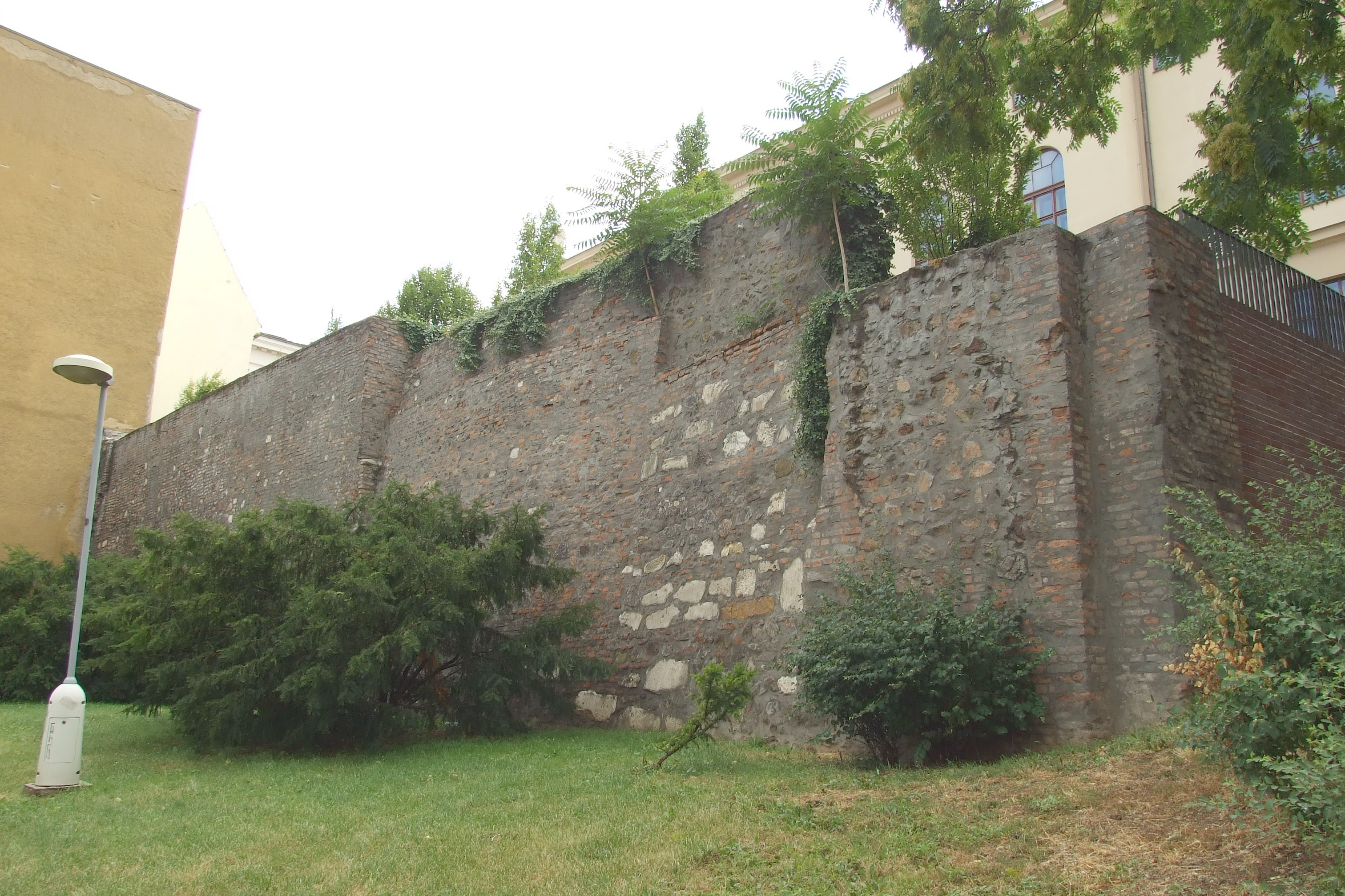 Medieval city walls of Brno